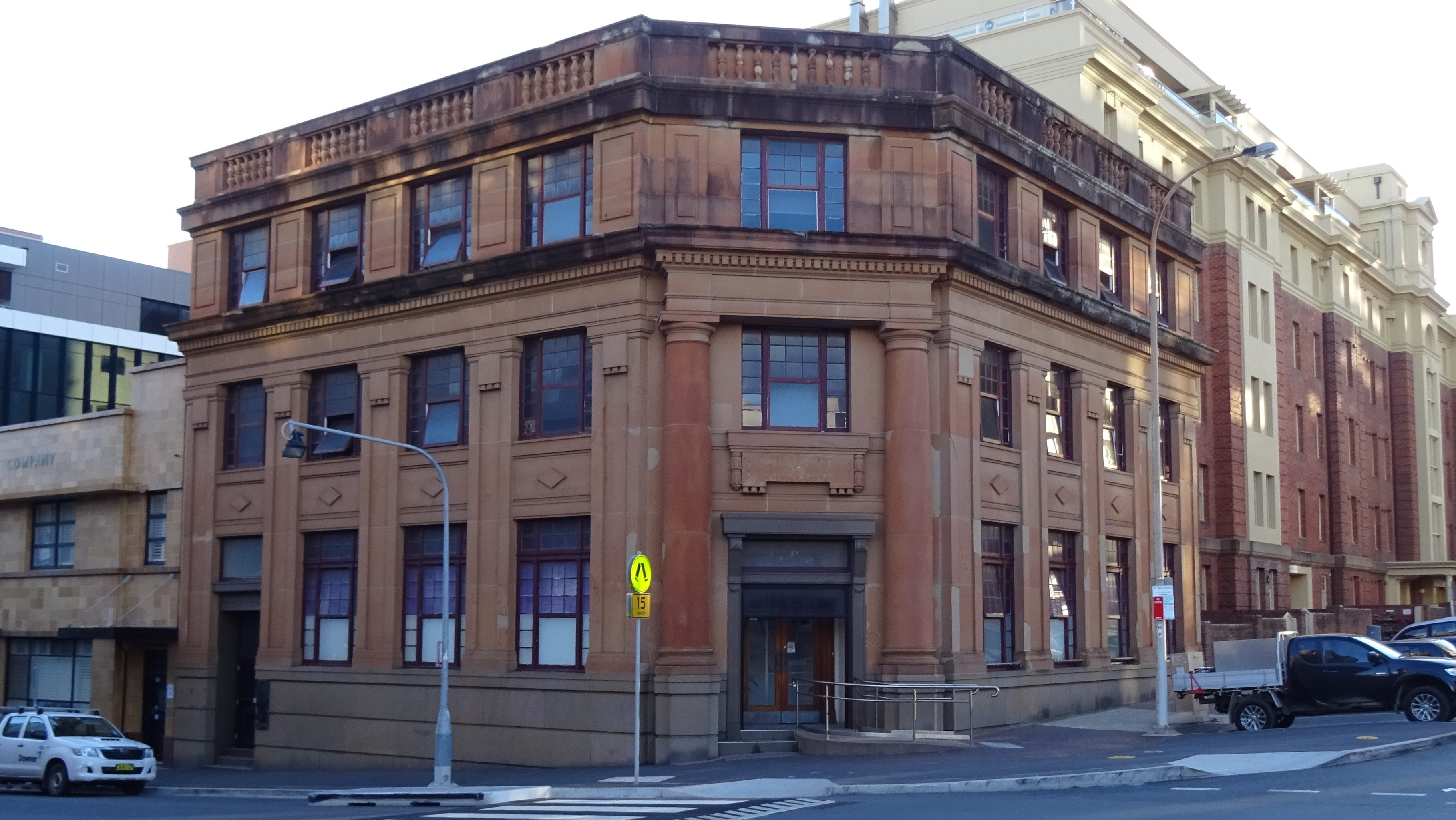 35-37 Watt St, Newcastle. 3 storey Classic Revival Building. Constructed in 1920s.